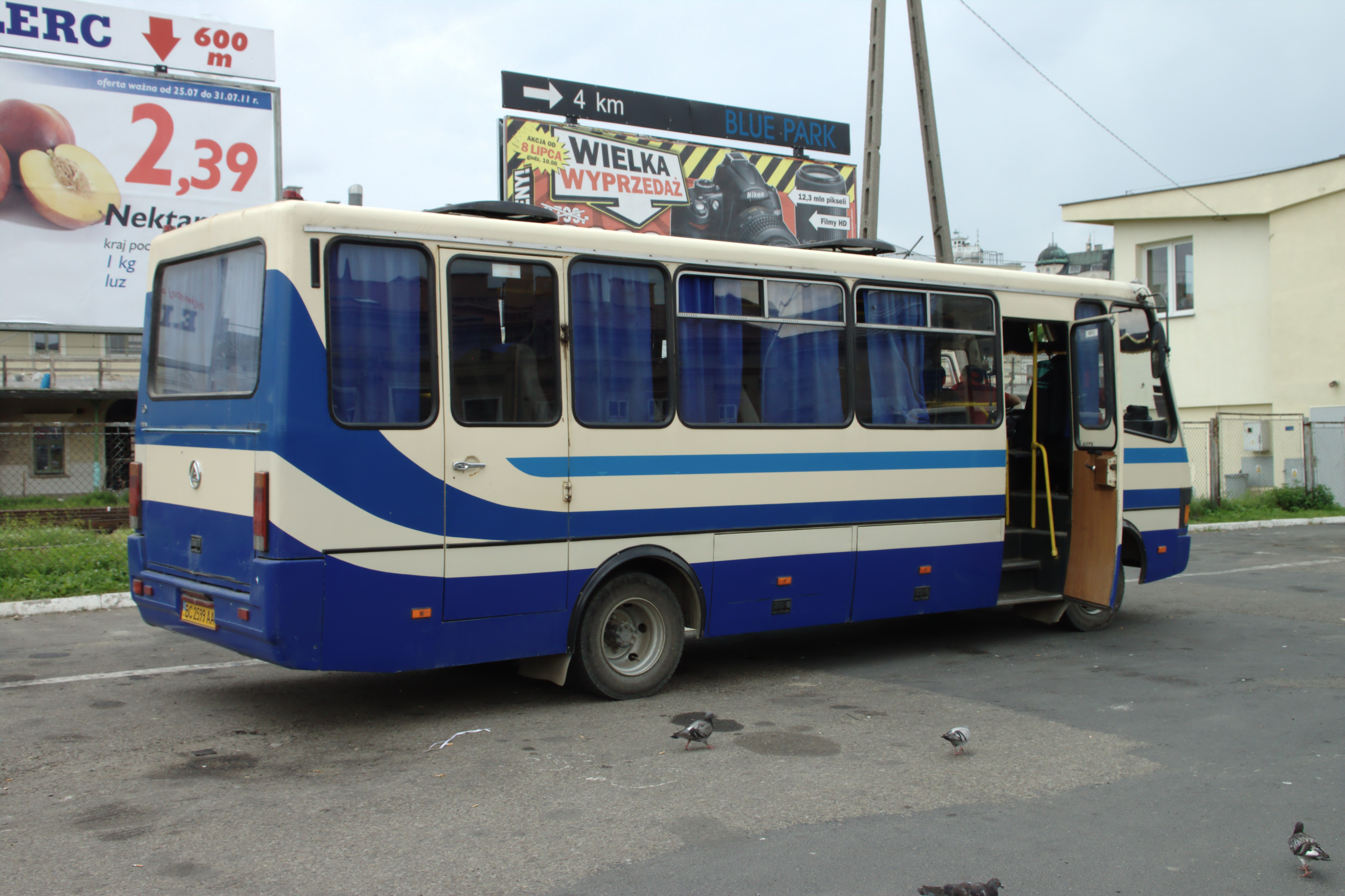 Ukrainian minibus BAZ A079 "Etalon" (reg. BC 2599 AA) is waiting a the main bus station in Przemyśl, Subcarpathian Voivodeship, Poland.